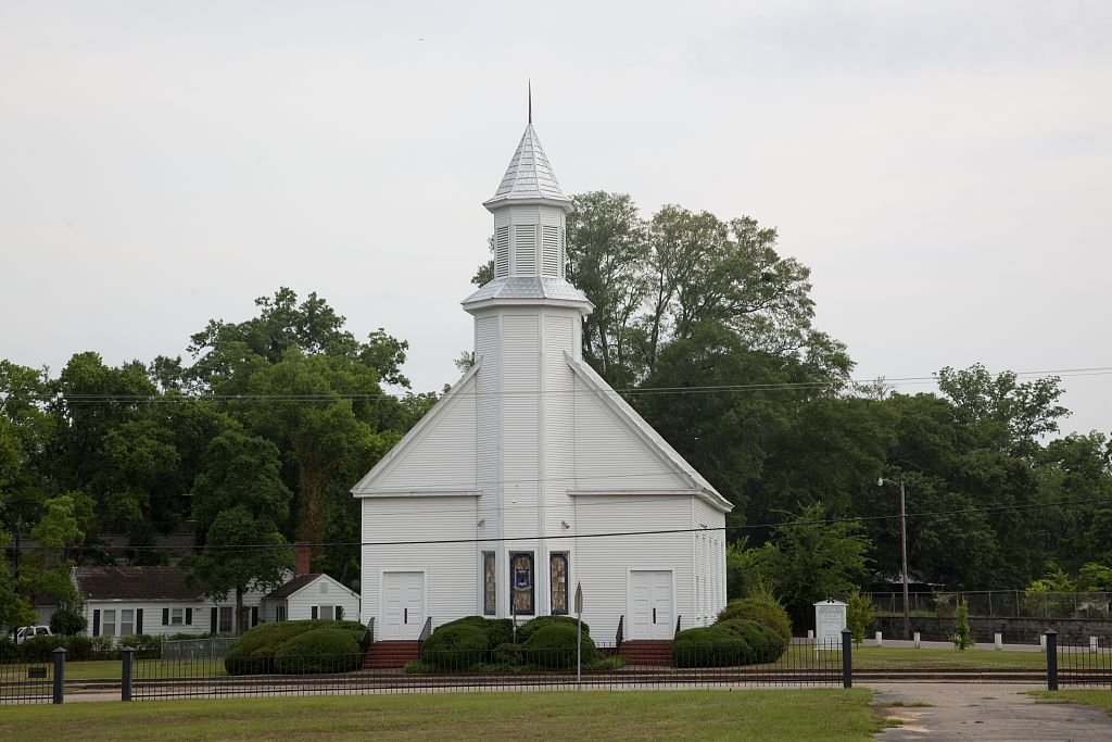 Historic buildings in Camden, Alabama. (The Camden Associate Reformed Presbyterian Church. Built in 1849, it was remodeled in 1906 with the front portico being enclosed and a new steeple added.)